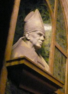 Bishop Gregorio Modrego over his tomb in cathedral of Barcelona, by Fredric Marès.